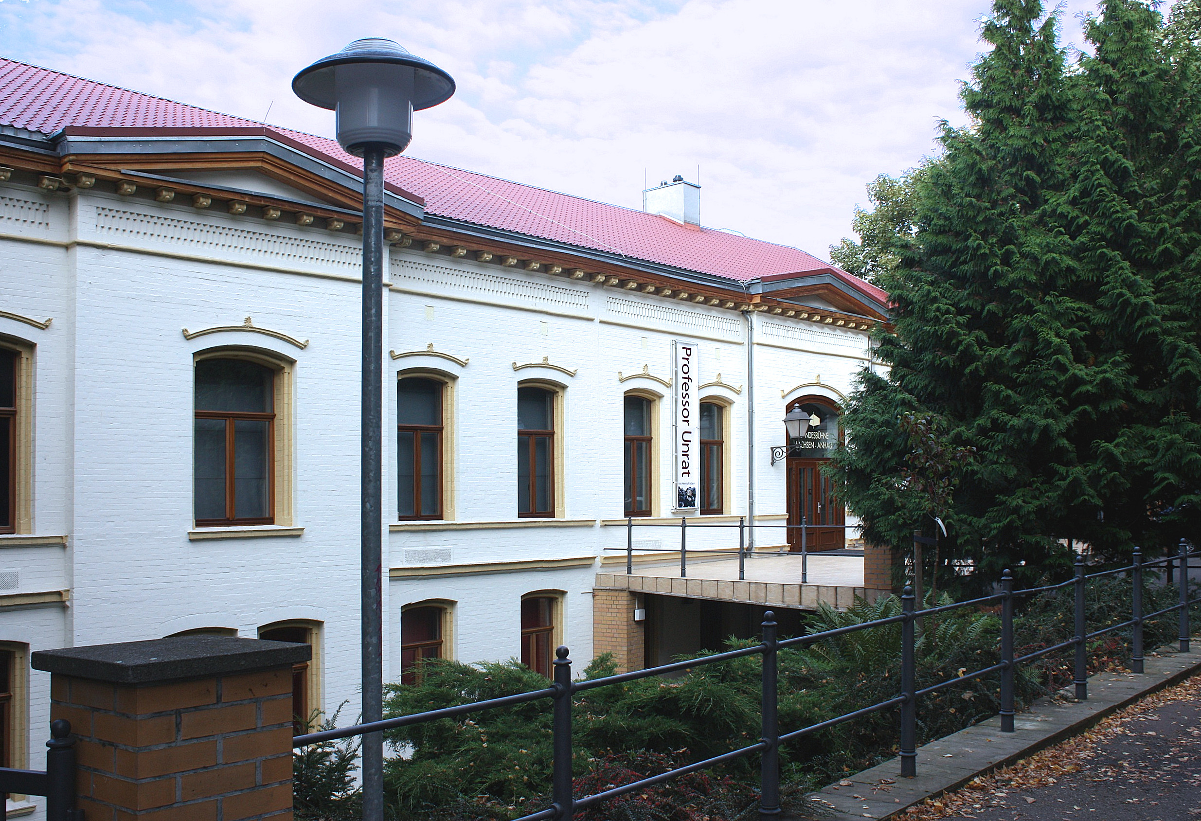 Lutherstadt Eisleben, the theatre